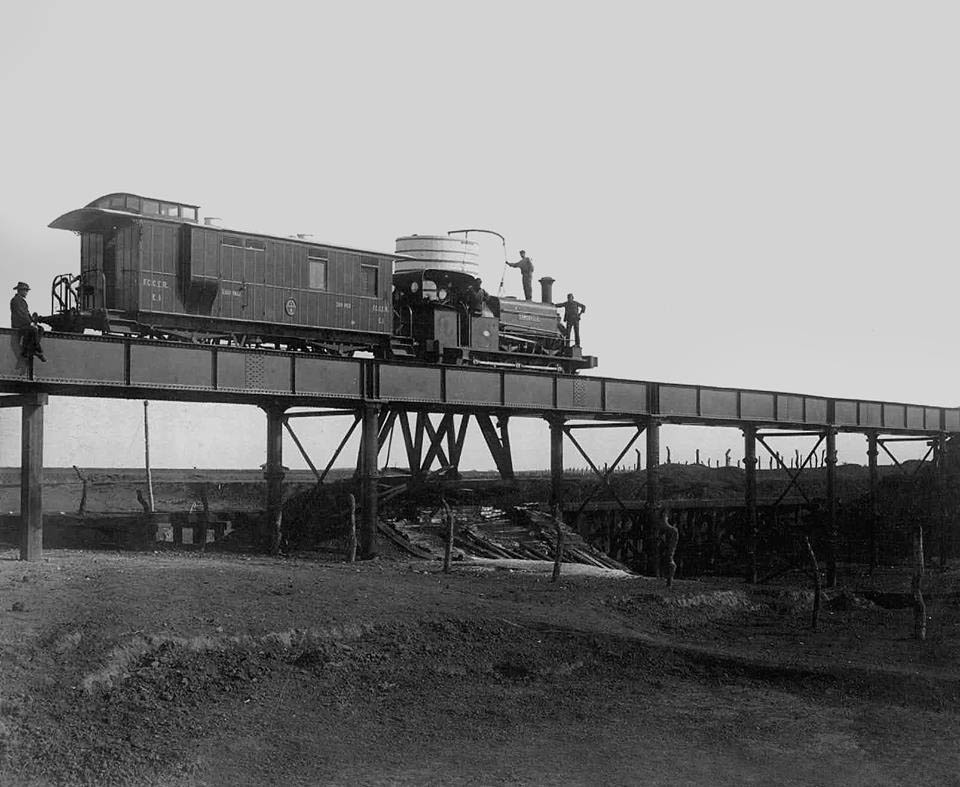 Entre Ríos Central Railway train running on a bridge, unknown river/lake.